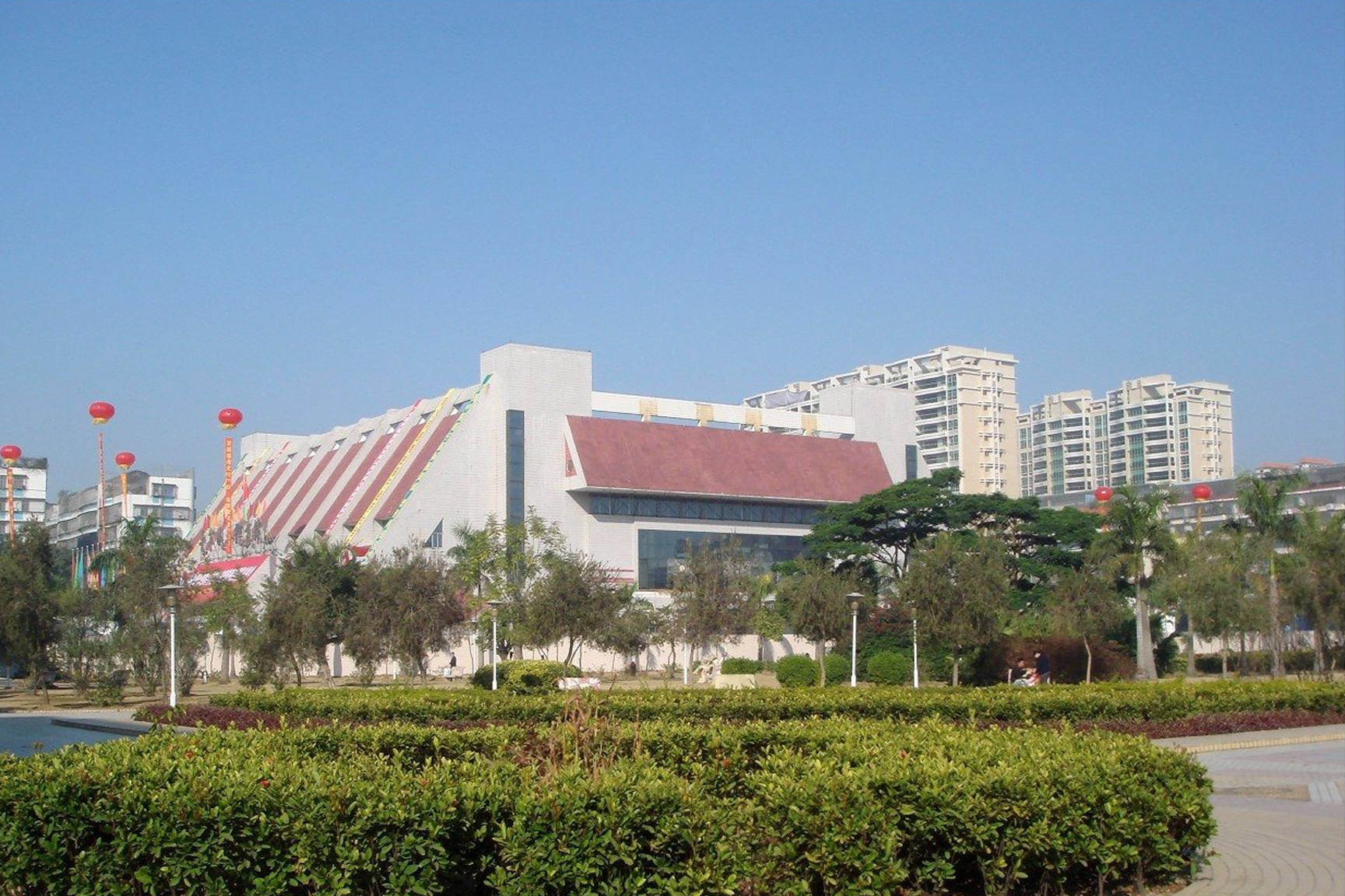 Puning Minghua Stadium at 2008